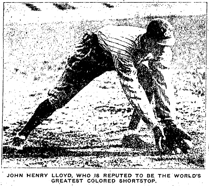 John Henry Lloyd in 1916